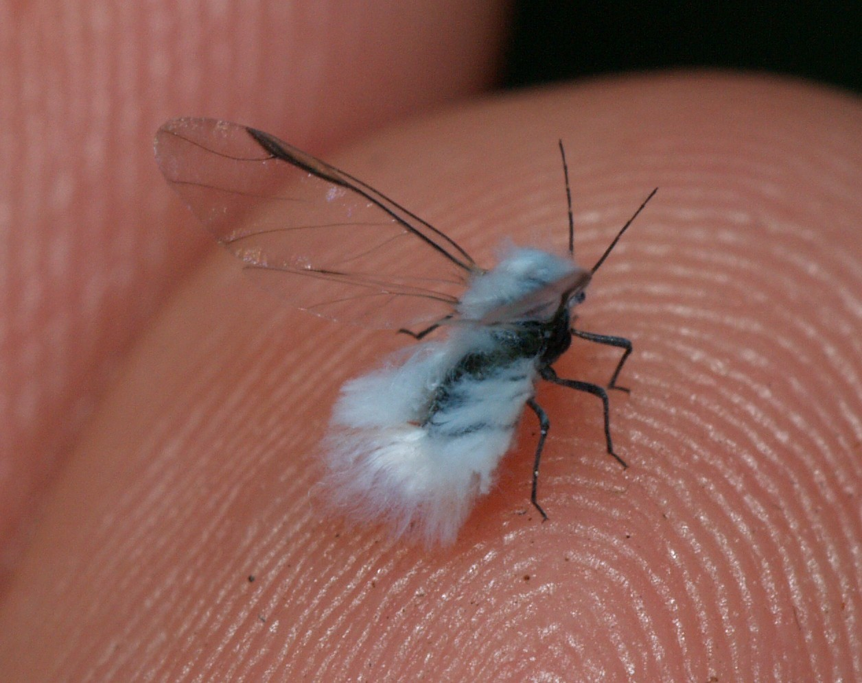 adult Phyllaphis fagi from Königsforst near Cologne, Germany.